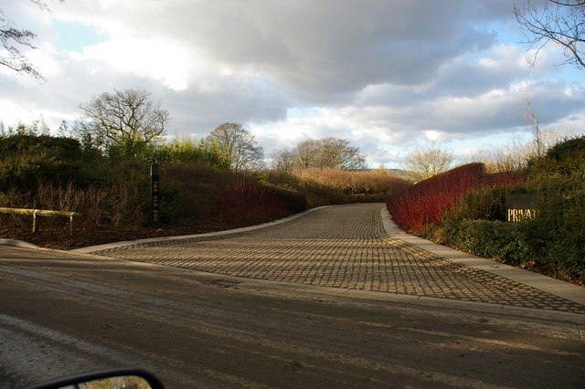 The entrance to The Old Zoo, Brockhall Village. At the end of this winding road there is a very interesting shaped house